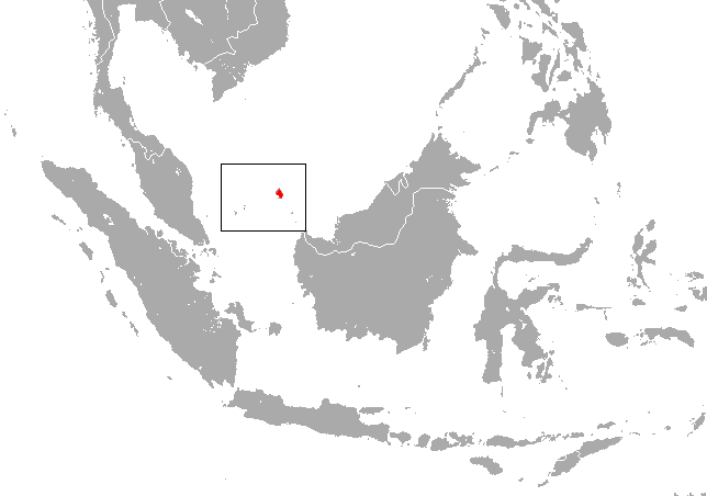 Neriad Horseshoe Bat (Rhinolophus nereis) range